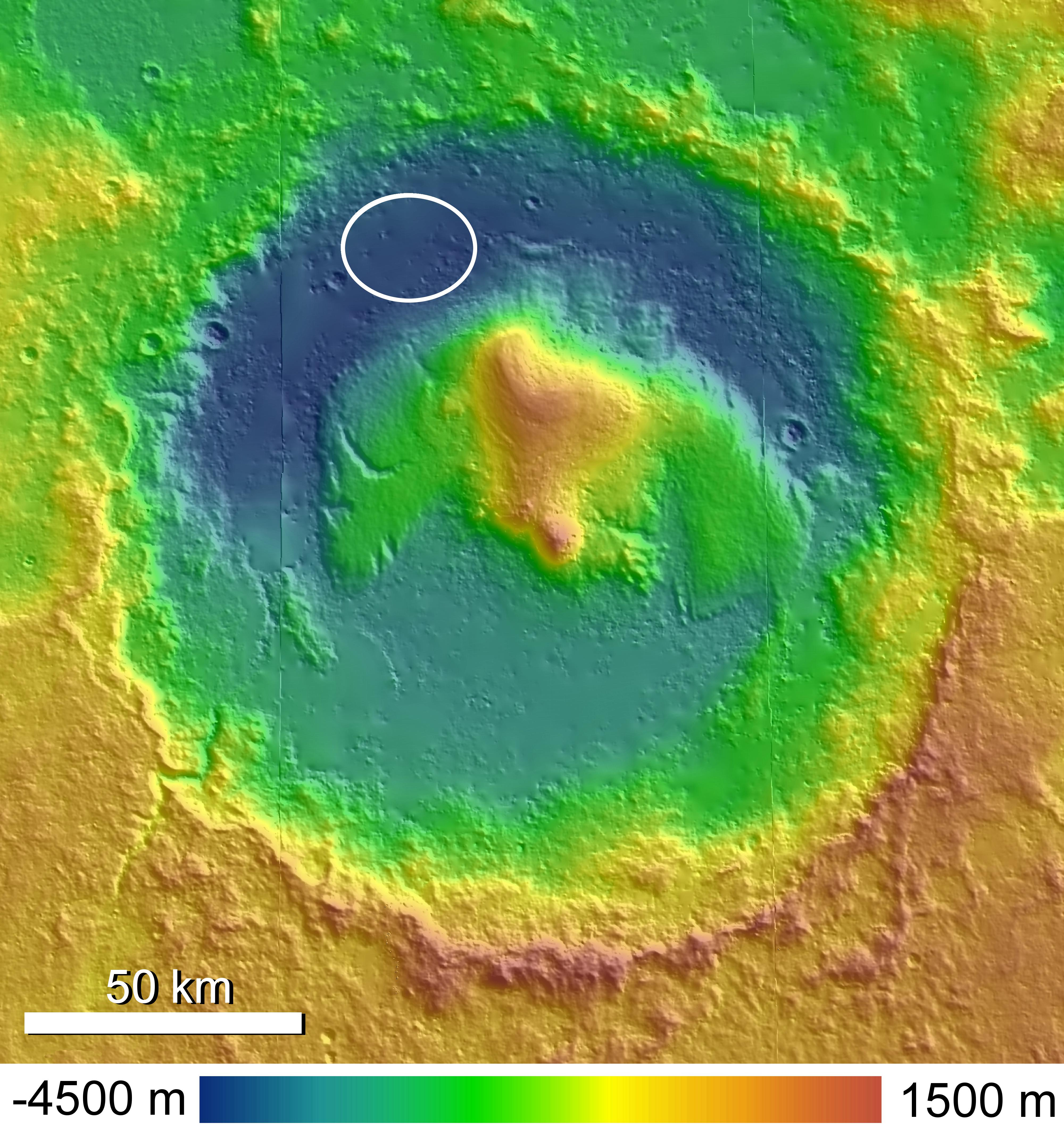 A shaded and colorized topographic map of Gale Crater, Mars, based on publicly released High Resolution Stereo Camera (HRSC) data. The MSL landing ellipse is indicated in the northwestern crater floor.